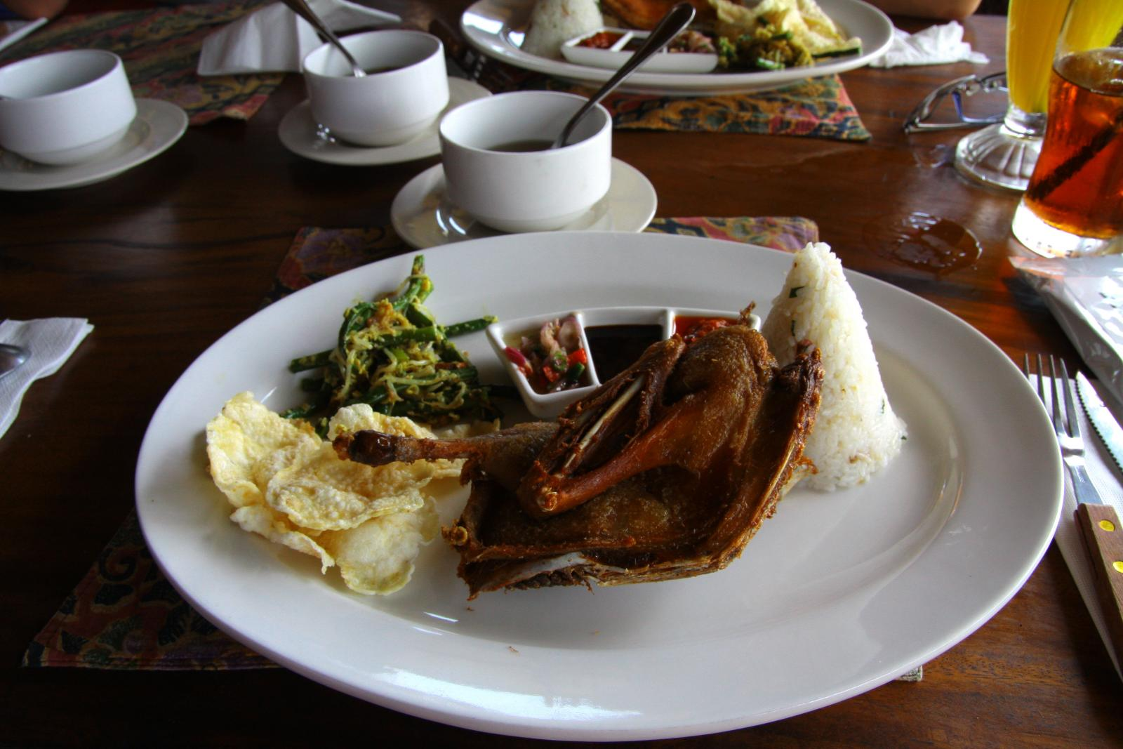 Fried duck, Bali, Indonesia